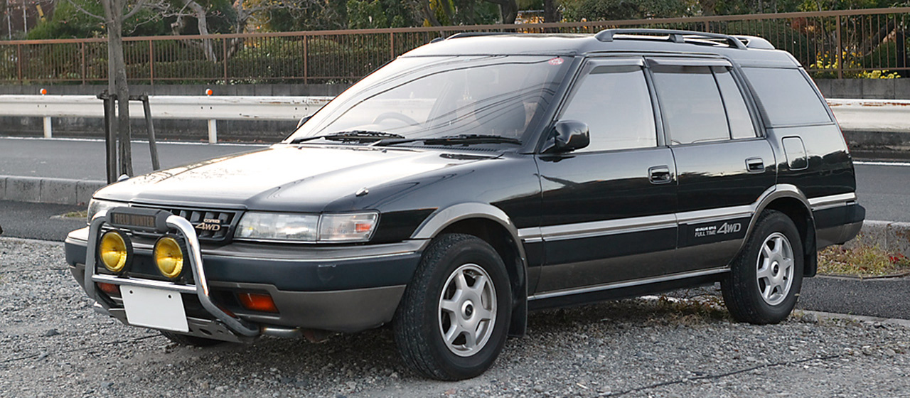 Toyota Sprinter Carib